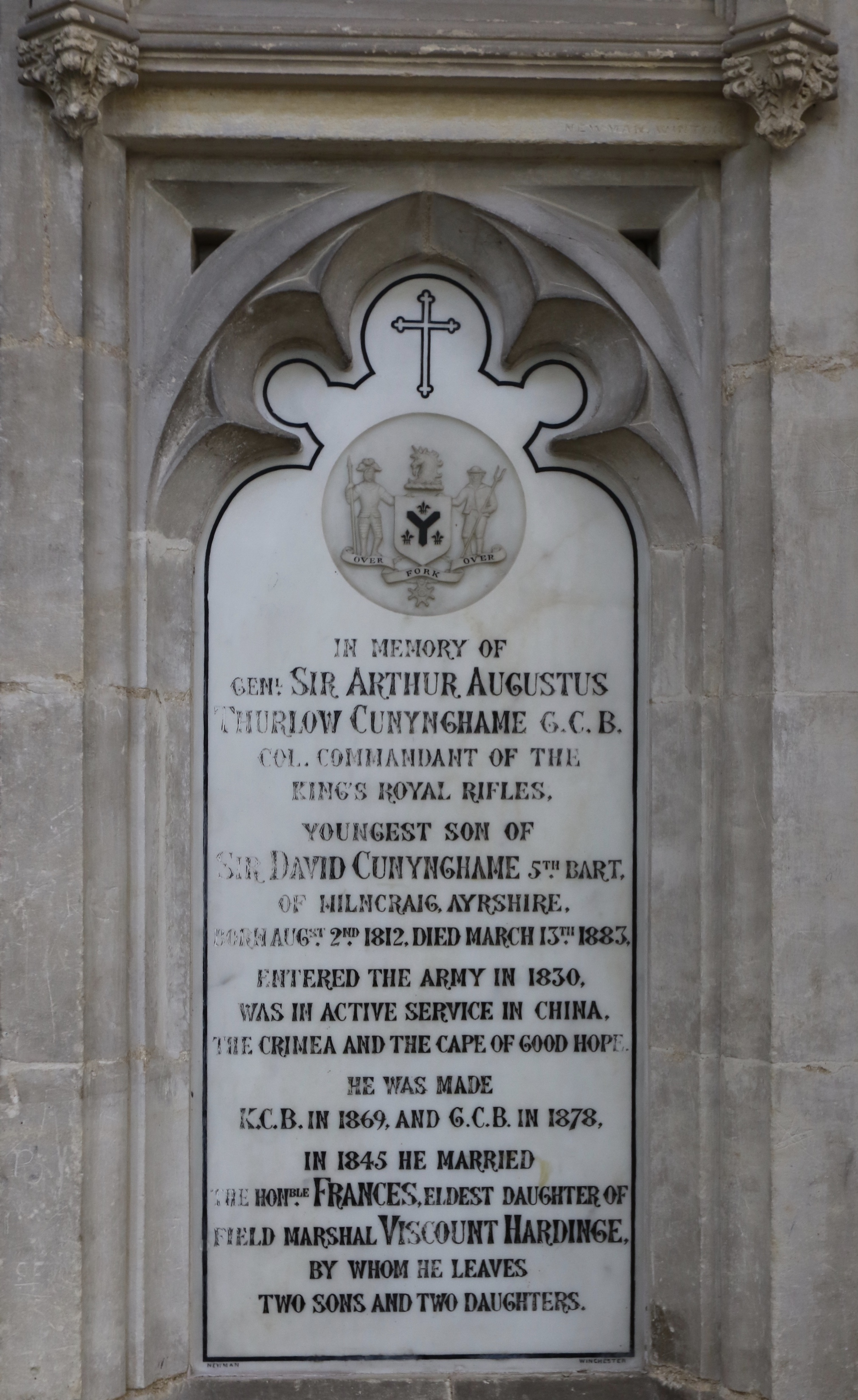 General Sir Arthur Augustus Thurlow Cunynghame GCB. Col. Commandant of the King's Royal Rifles. Youngest son of Sir David Cunynghame 5th Bart, of Milncraig Ayrshire, Born 2 August 1812. Died 13 March 1883 Entered the Army in 1830 Was in active service in China, the Crimea and the Cape of Good Hope. He was made KCB in 1869 and GCB in 1878 In 1845 he married the Hon Frances, eldest daughter of Field Marshall Viscount Hardinge, by whom he leaves two sons and two daughters.